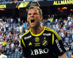 Robert Åhman-Persson after a goal scored against BK Häcken in 2013.